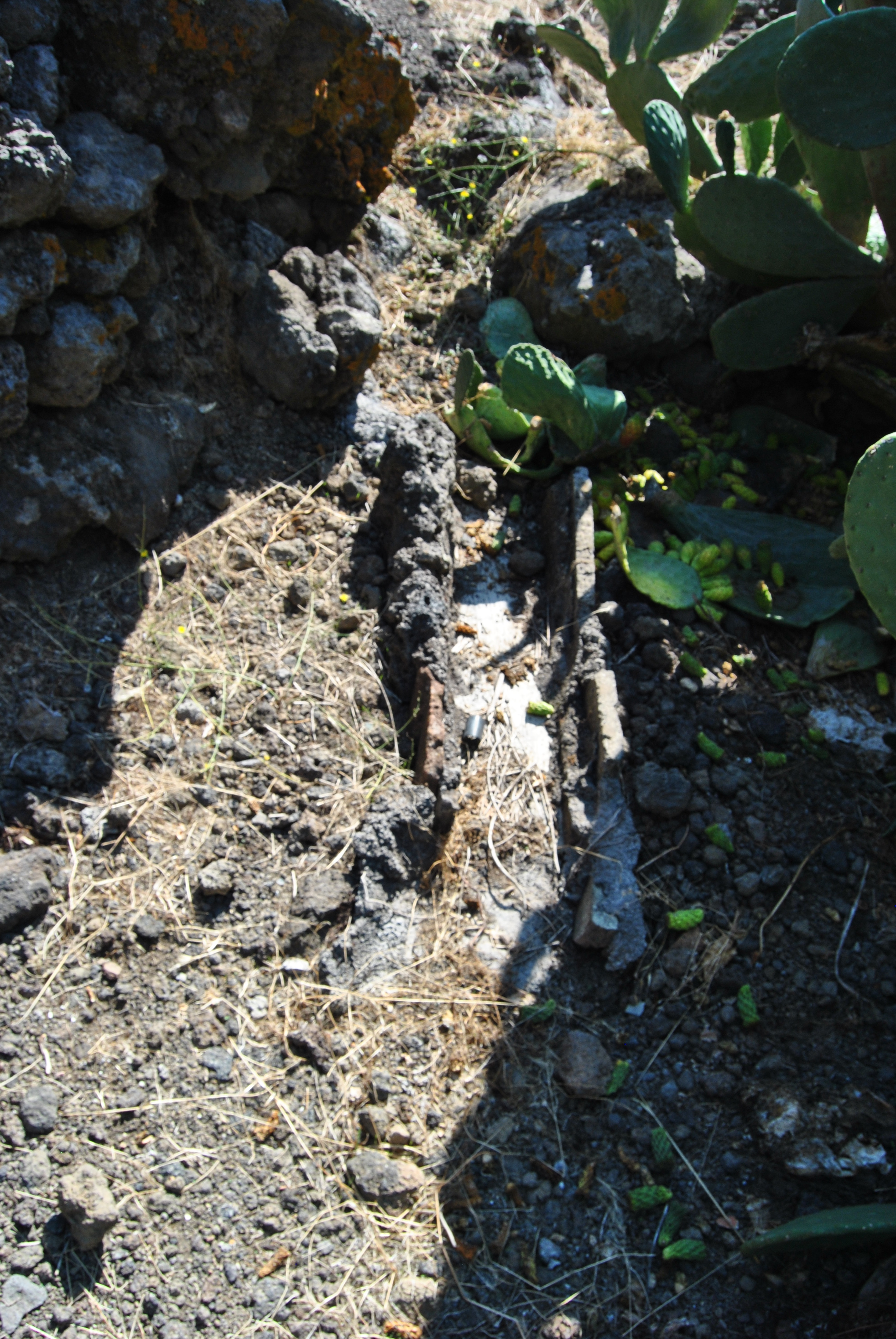 Saja in tegole greche